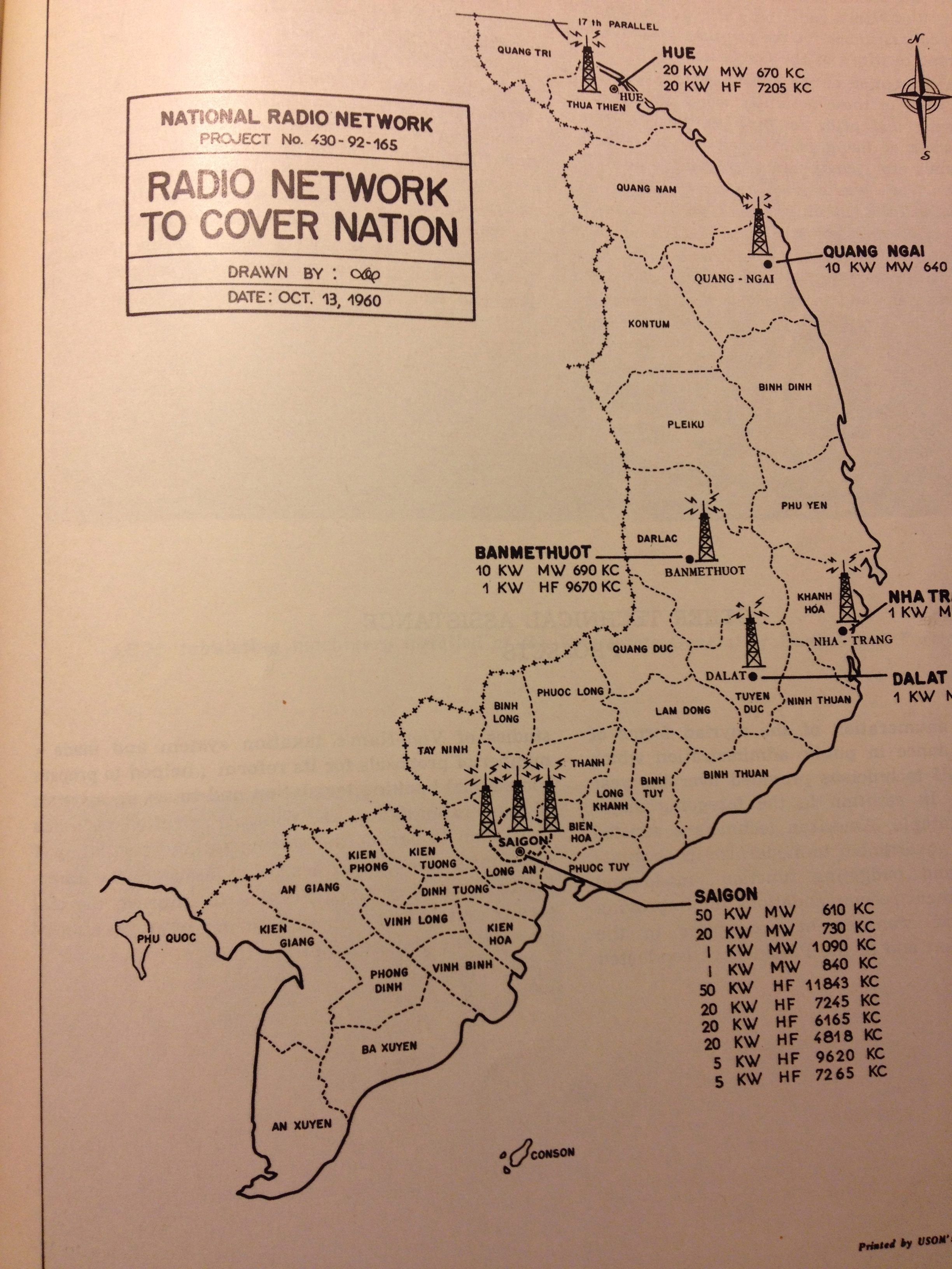 Radio network of the Republic of Vietnam